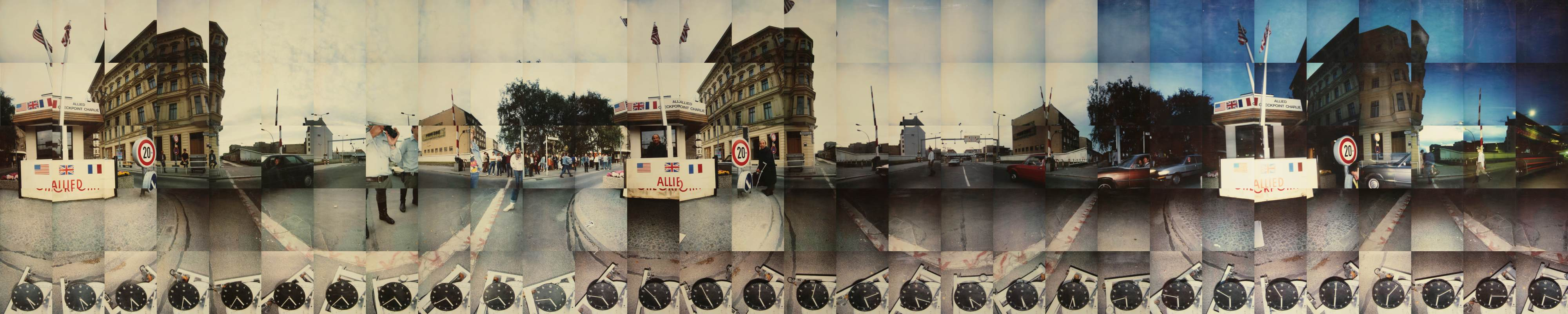 Check Point Charlie 1988